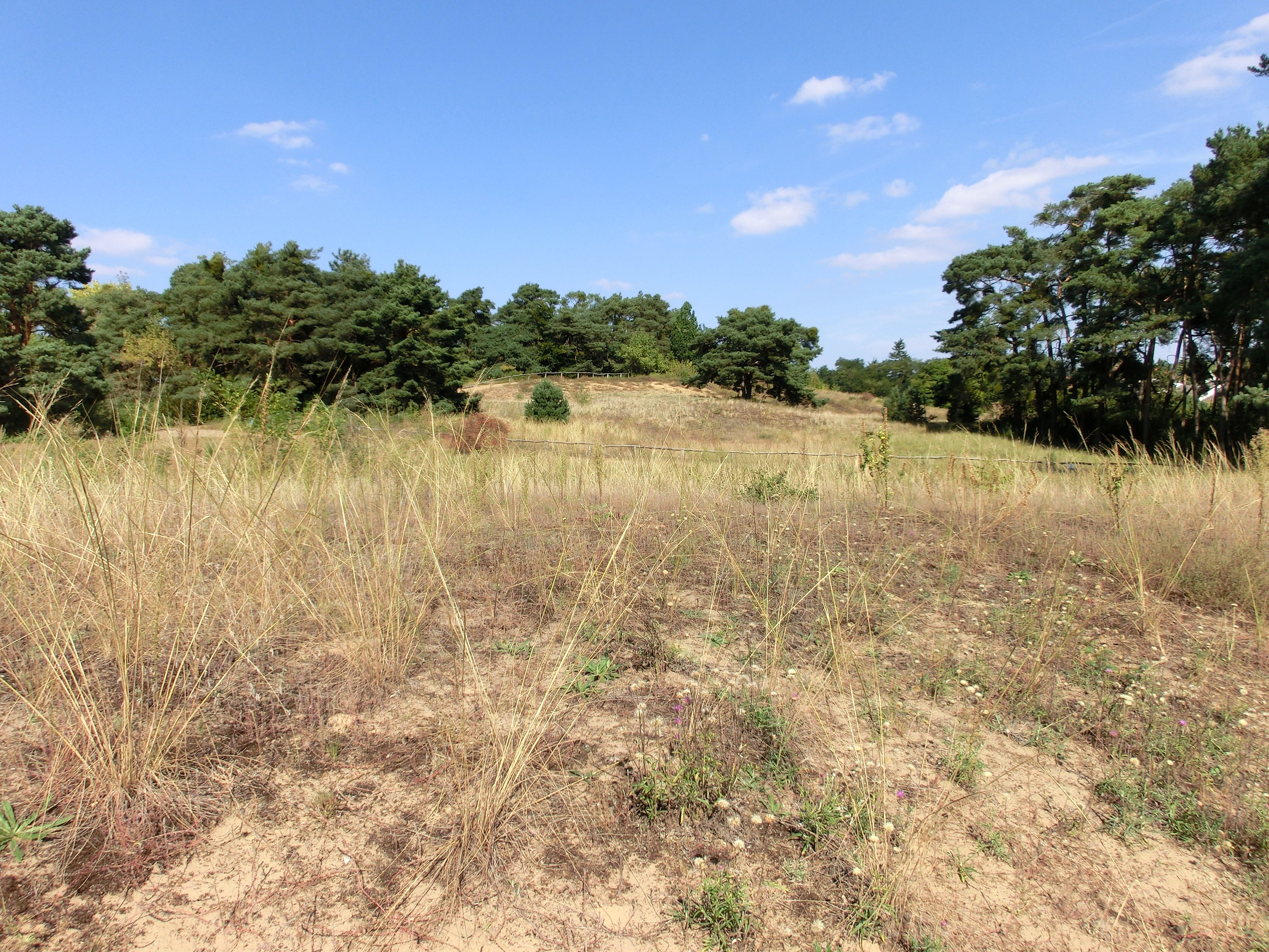 Sand dune "Am Ulvenberg at Darmstadt-Eberstadt", Hessia, Germany. Plants in the foreground are Stipa capillata and Jurinea cyanoides.